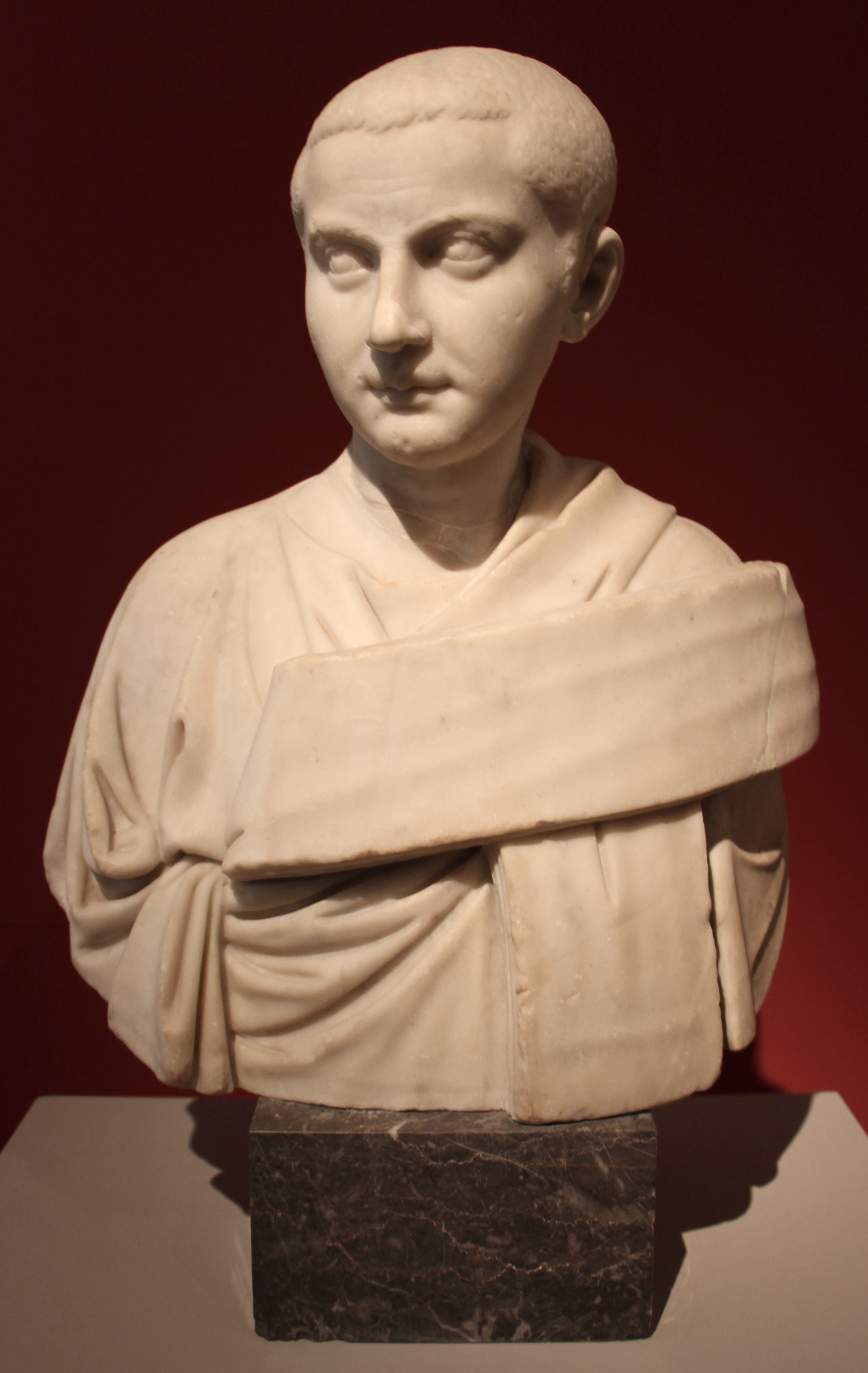 Ancient Roman sculptures in the Antikensammlung Berlin